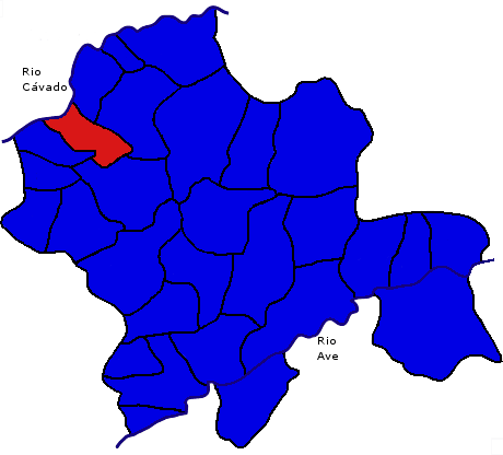 Map of Monsul in Povoa de Lanhoso, Portugal